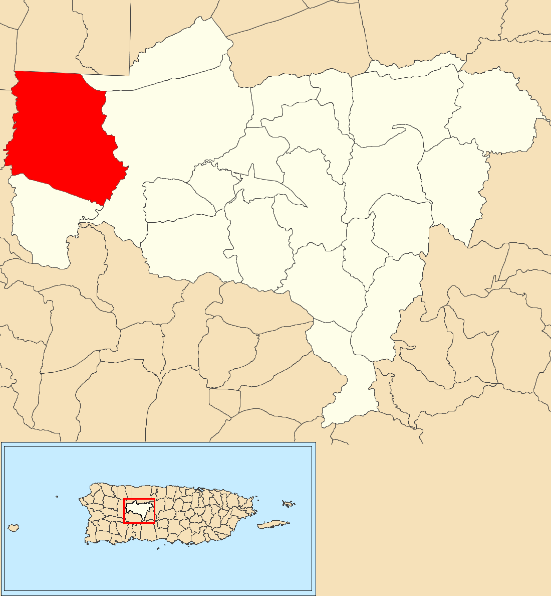 Ángeles, Utuado, Puerto Rico locator map scale is 102,000